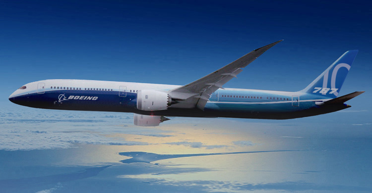 Rendering of a 787-10, available for first delivery in 2018, combining photo of Rama's (Adam's) Bridge and a stretched photo of a 787-8.